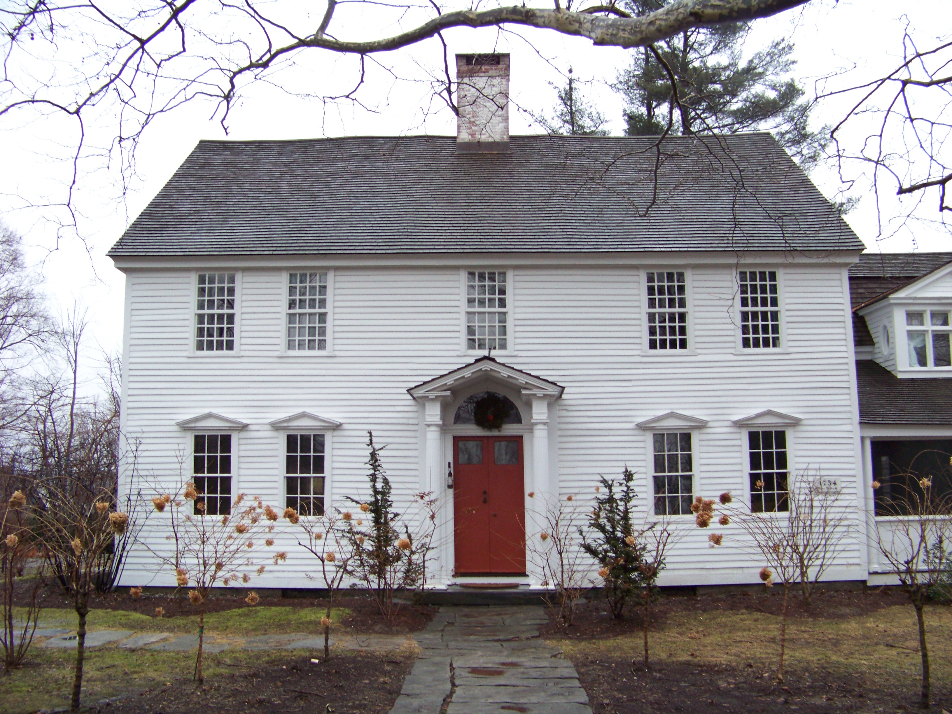 Another pic of Oliver Wolcott House, South Street (east side), Litchfield, Connecticut